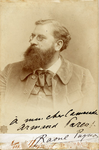 Raoul Pugno, around 1900